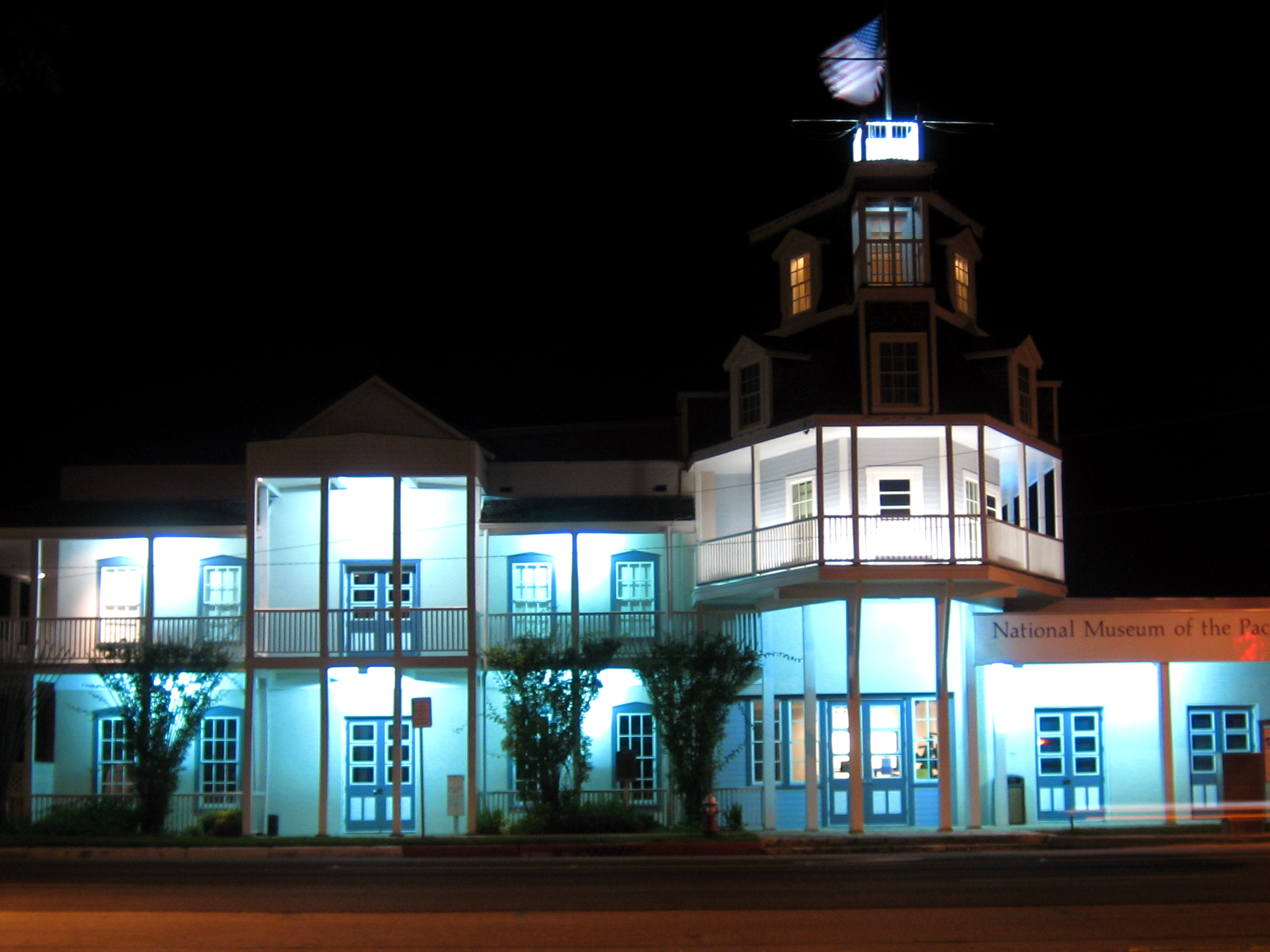 The Nimitz Museum in Fredericksburg, Texas, which is part of the Admiral Nimitz State Historic Site - National Museum of the Pacific War in Fredericksburg, Texas